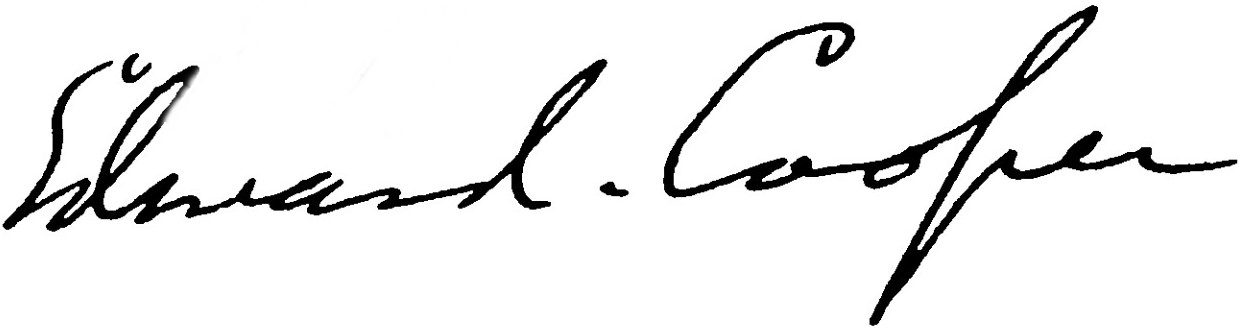 The Signature of Joshua Edward Cooper